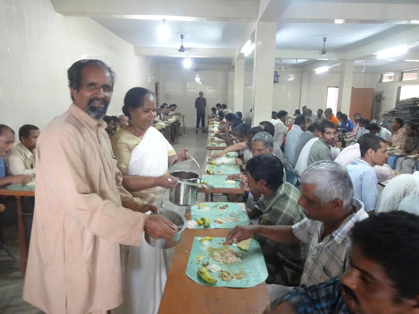 Serving Couples